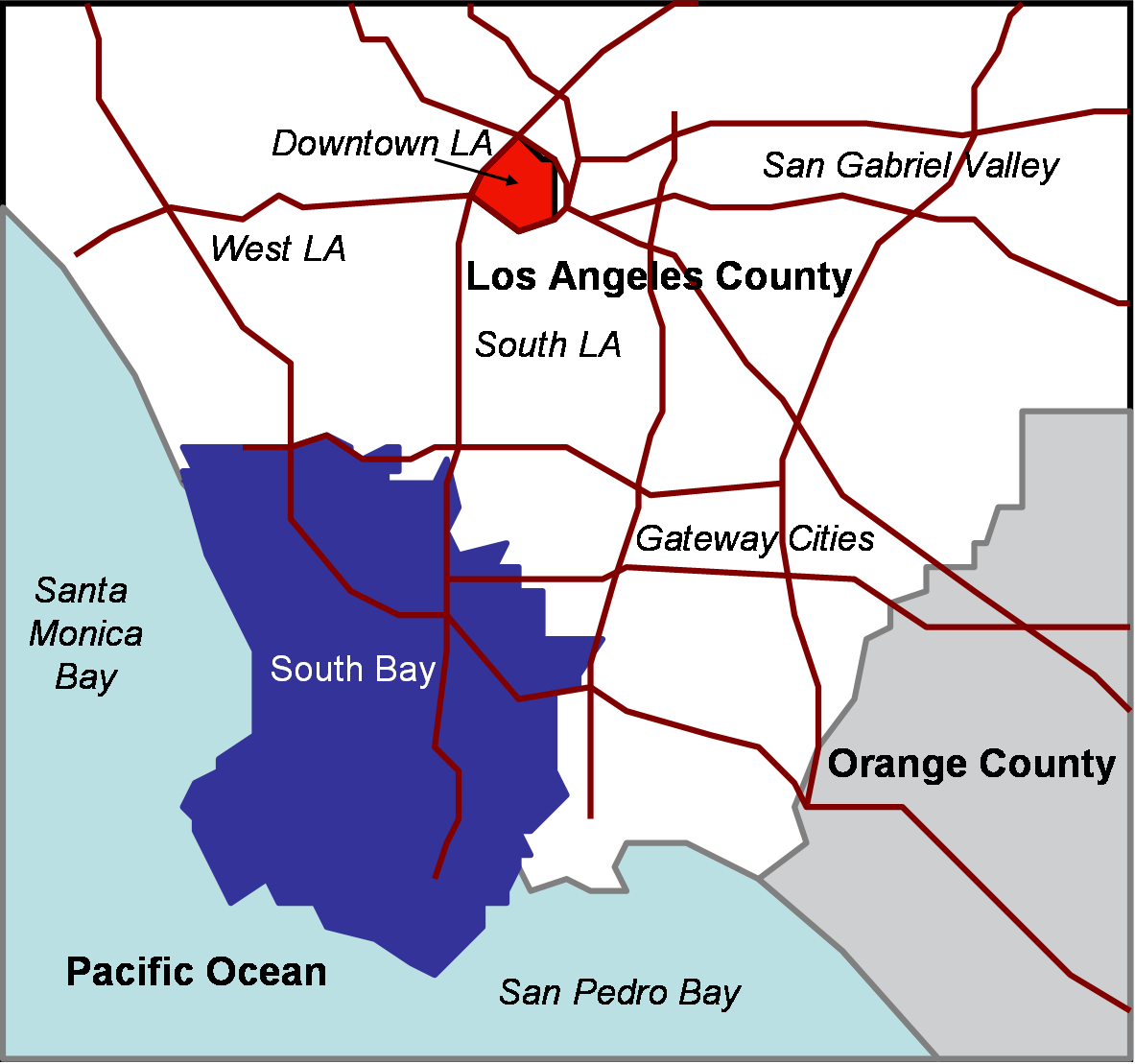 Created using census data